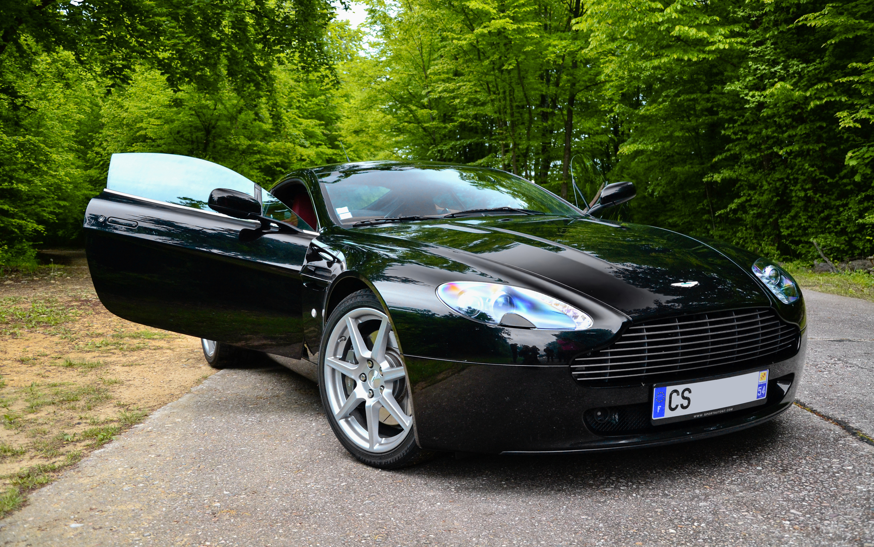 Black Aston Martin V8 Vantage with the swan doors open